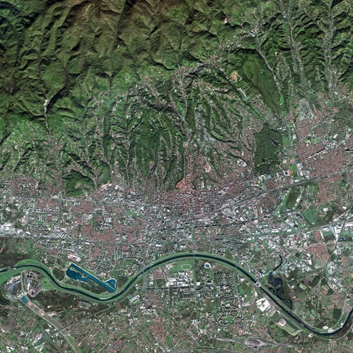 Zagreb by SPOT Satellite